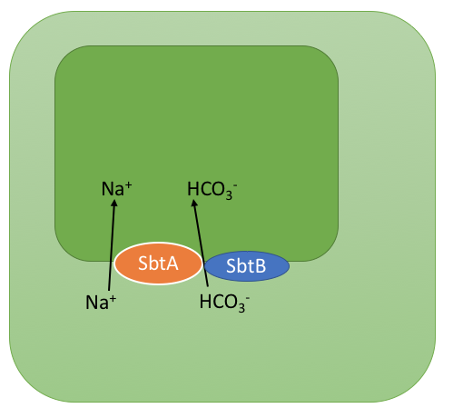 A simplified representation of the SbtA function as a sodium-dependent bicarbonate transporter into the cyanobacterial chloroplast and its relationship with the SbtB protein as its inhibitor by direct binding. The figure size and location is not representative as the interaction is still being researched. In addition, this is a simplified model as it does not acknowledge other transporters and regulators.